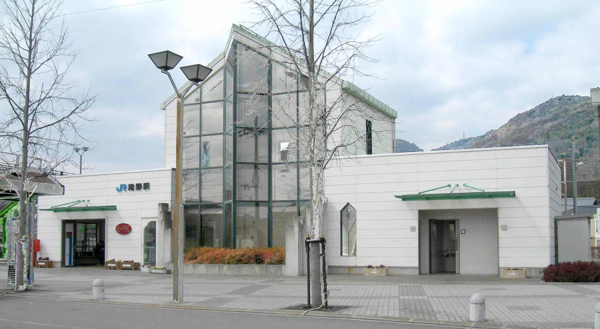 JR Takino Station by 沙羅星人 (yr. 2008), edited by JoelReesonmars to make the features more visible.